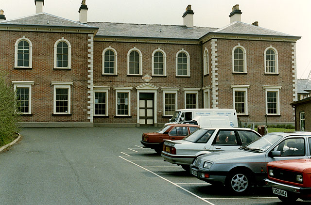 Former railway station, Llanidloes